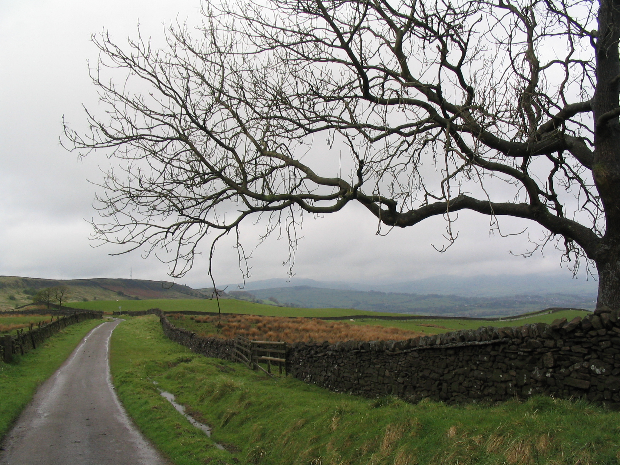 Sustrans Pennine Cycleway